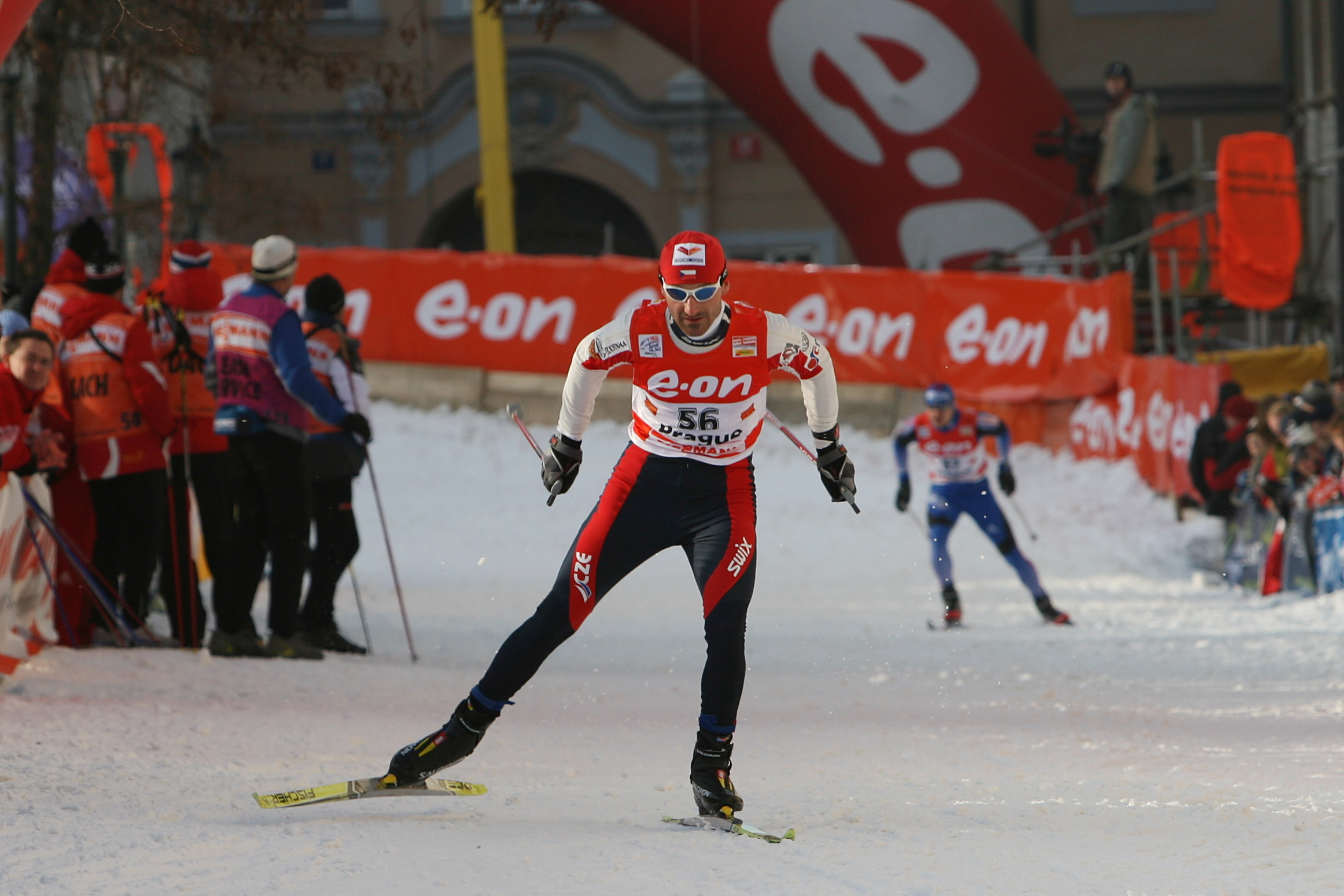 Jiří Magál in the qualification of Tour de Ski in Prague